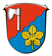 Coat of Arms of Weinbach